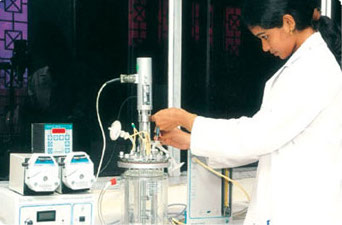 A student of microbiology at a laboratory of the Vels University